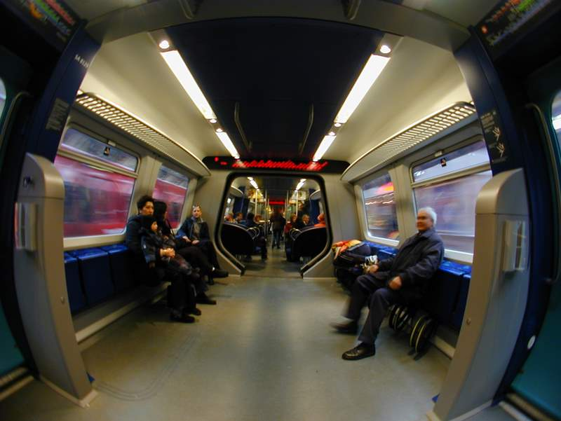 The bicycle car in a modern Copenhagen commuter train (third generation S-tog) (DSCN4288).